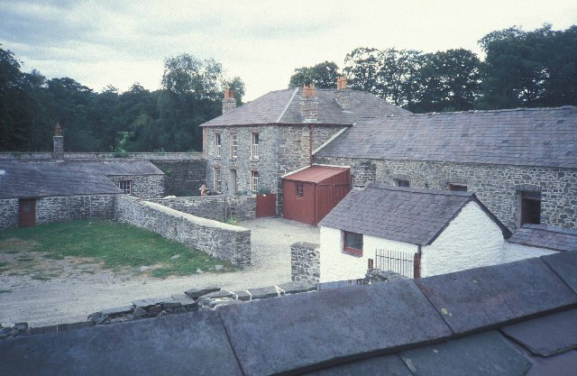 Farm buildings at Llanerchaeron.